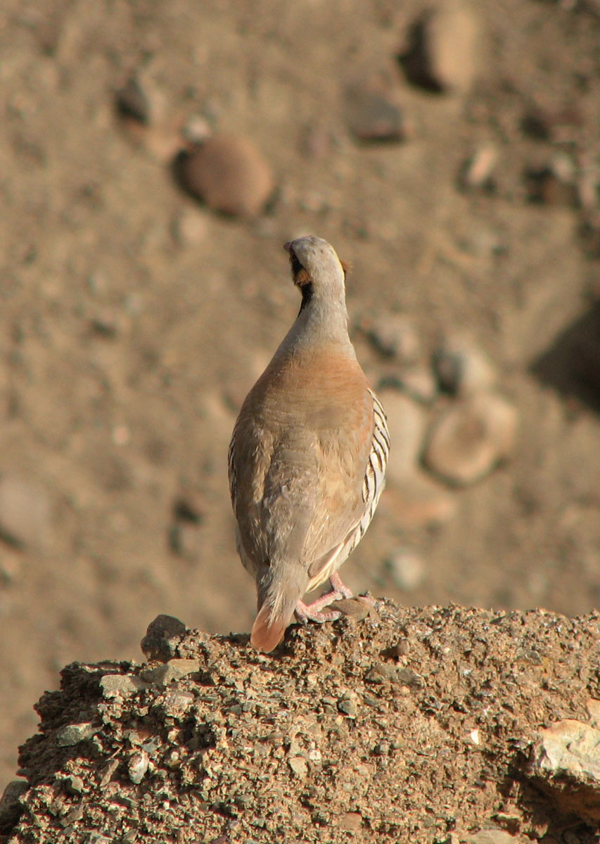 Chukar Partridge Alectoris chukar, adult; they weren't far off, but they scurried off the moment they saw us approach. Location: Just off Leh town, approaching Zinchen, Ladakh, India.